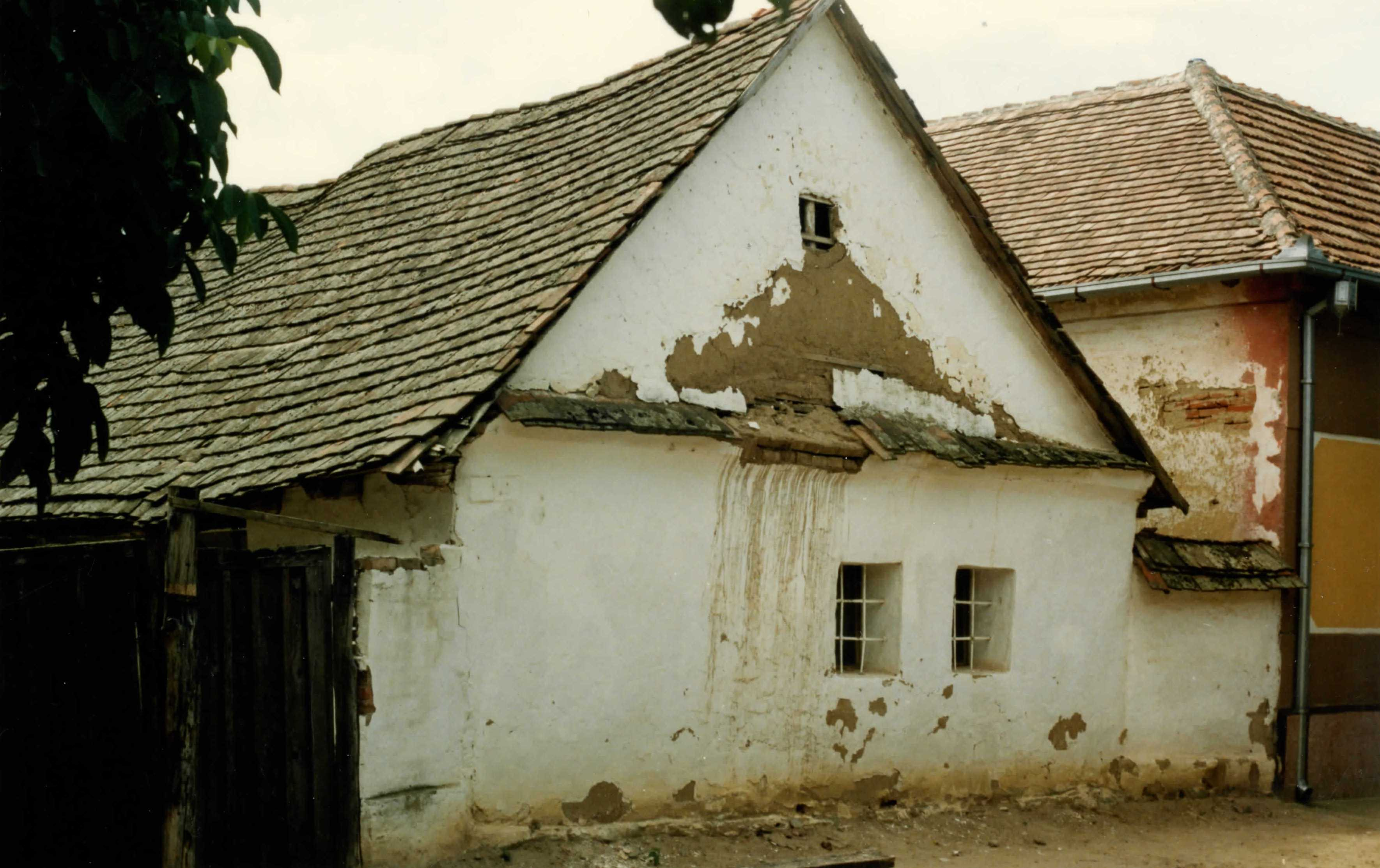 General look of house in Zadružna bb street in Kuštilj, Vršac (old photo)